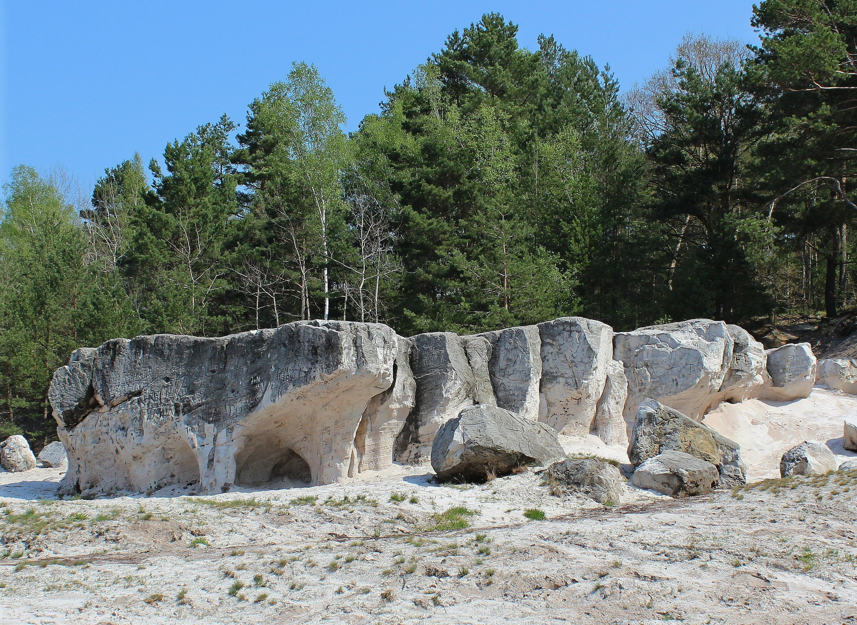 Silicified quartz sands in the abandoned mine Gotthold near Hohenleipisch.